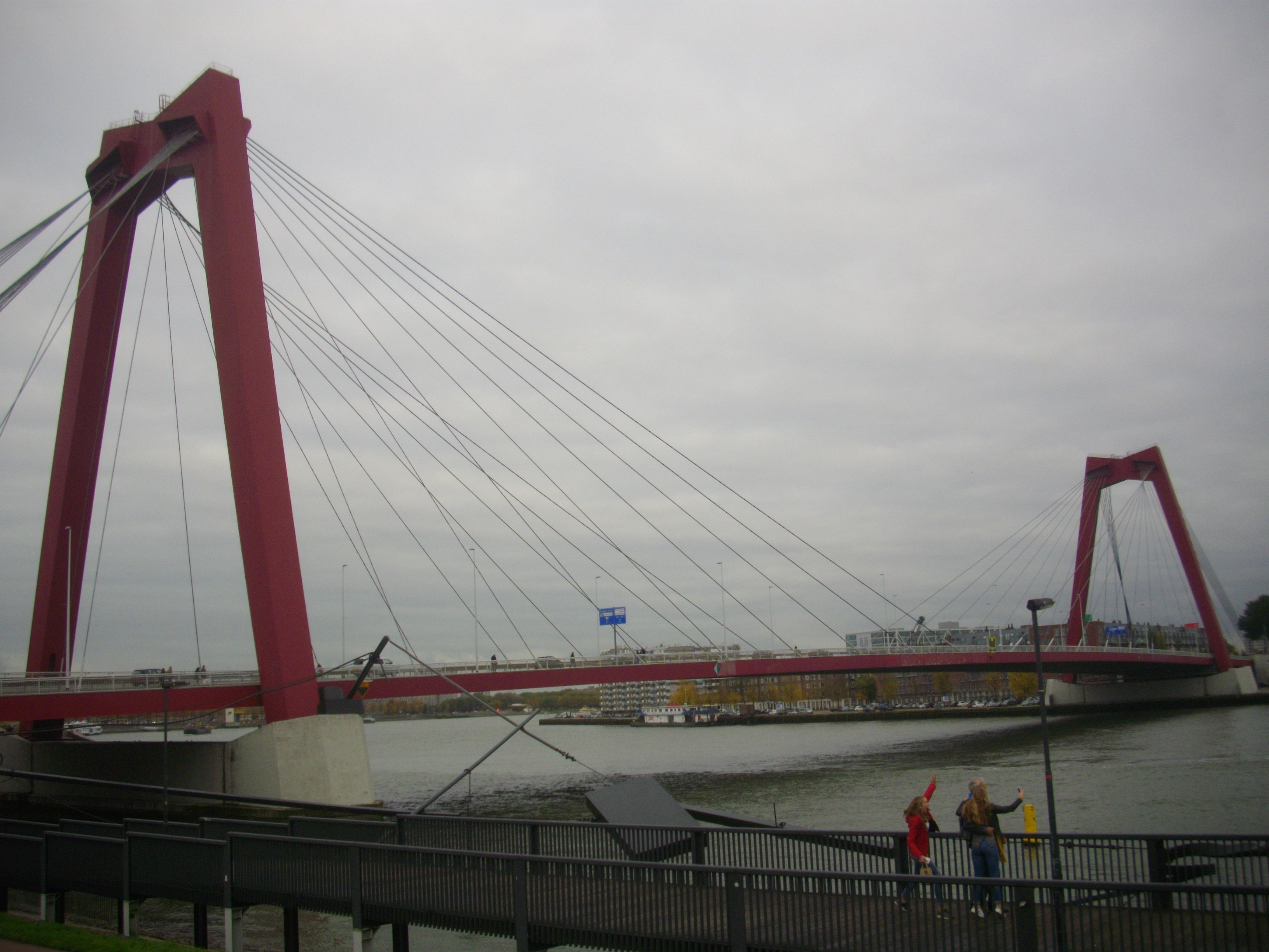 Willem's bridge, Rotterdam, Oct. 2015